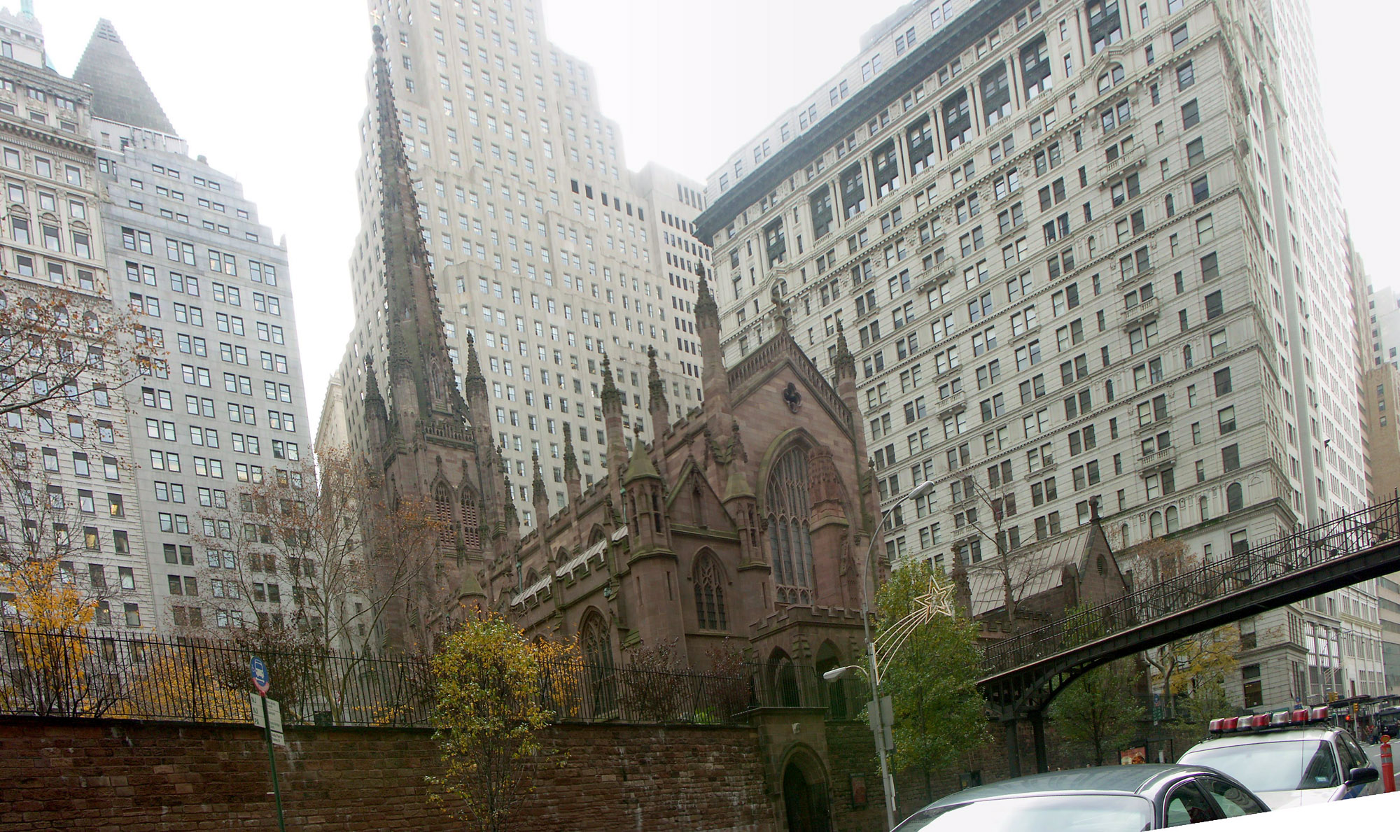 Trinity church (NYC) - View from Trinity Place